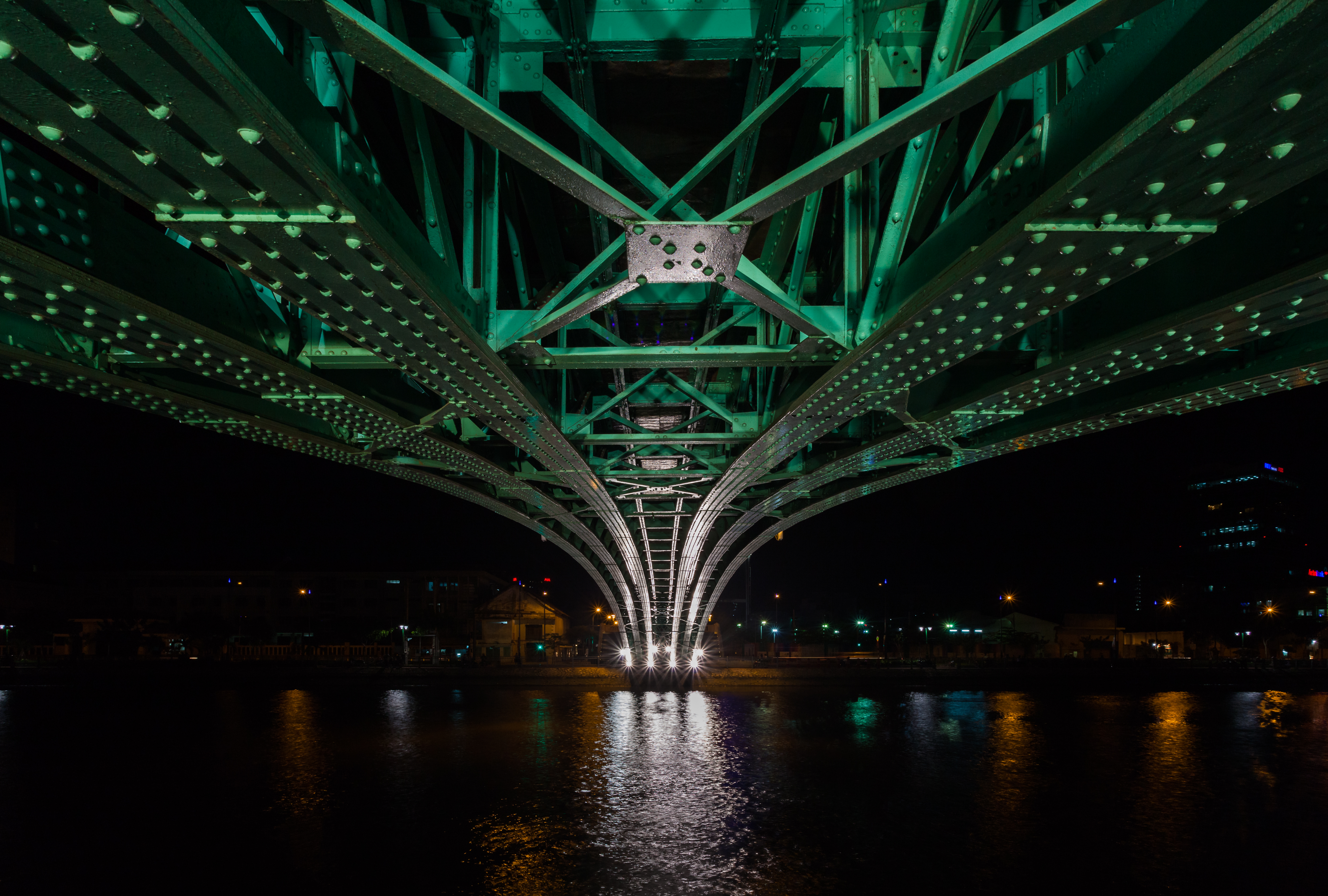 Mong Bridge, Ho Chi Minh City, Vietnam